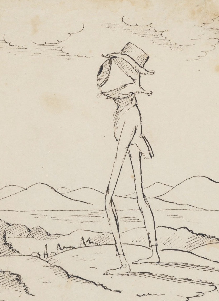 Illustration of "the transparent eyeball" concept of Ralph Waldo Emerson (cropped), by Christopher Pearse Cranch (1813-1892). Illustrations ca. 1837-1839, collected in 1844 by James Freeman Clarke and erroneously dated 1835. Christopher Pearse Cranch illustrations of the New Philosophy (MS Am 1506), Houghton Library, Harvard University